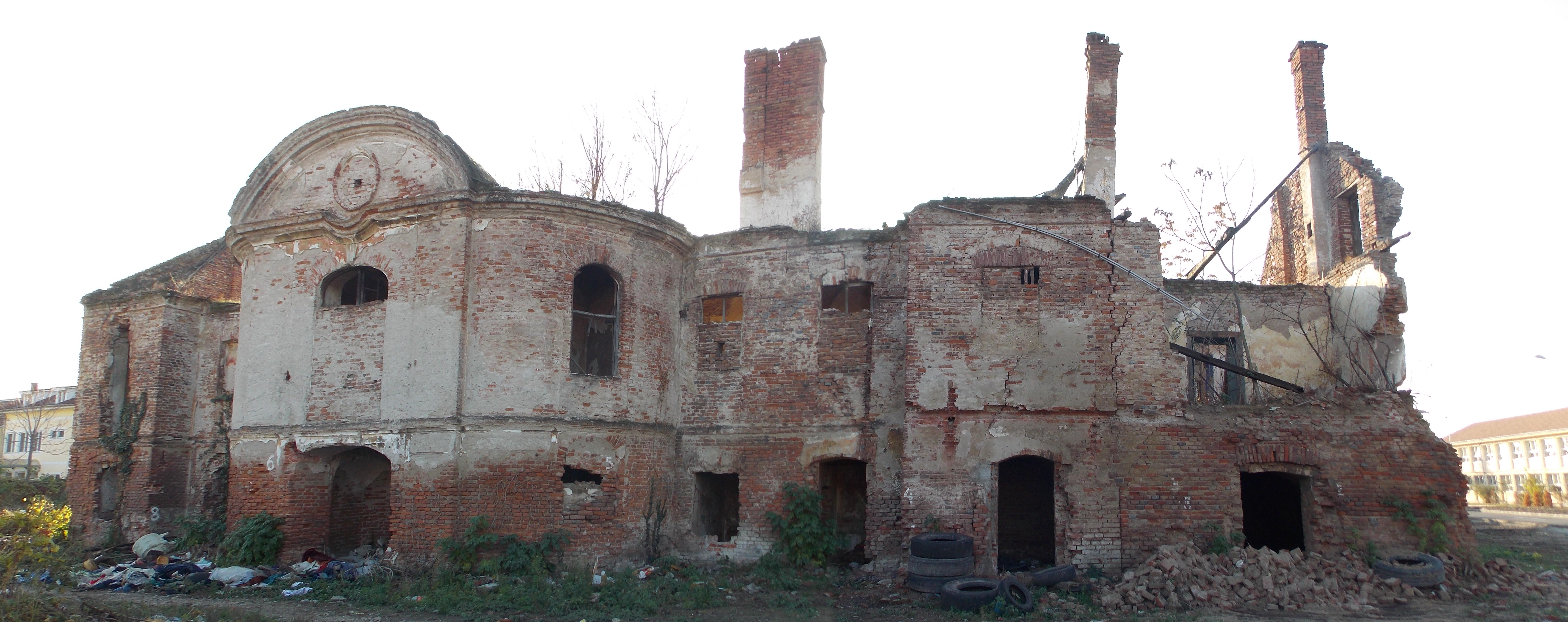 Hussars barracks - Oradea, RomaniaRomână: Ansamblul „Cazarma husarilor” - Oradea